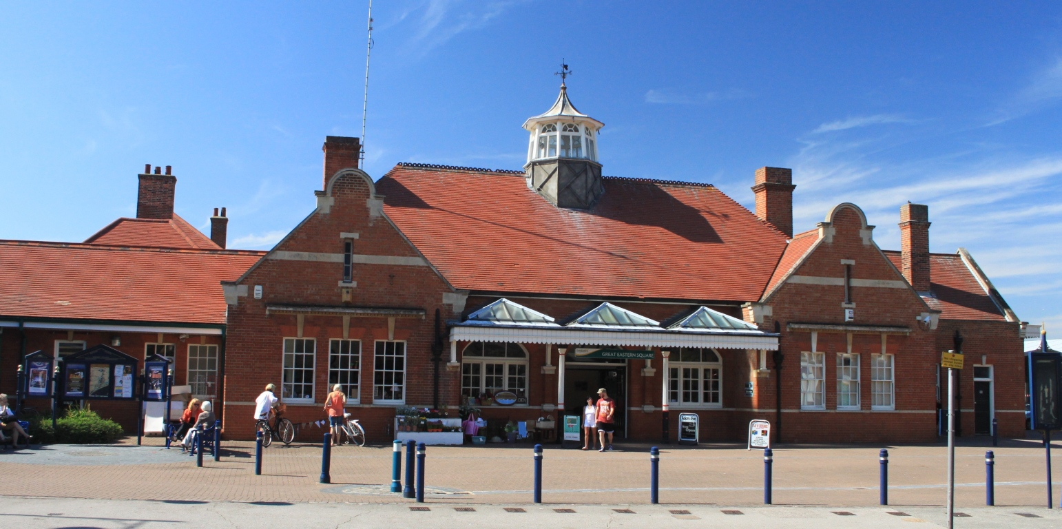 Great Eastern Square in Felixstowe, Suffolk, England. This used to be the town's main railway station but trains are now banished to the far end of the one remaining platform and the building is now a shopping centre.